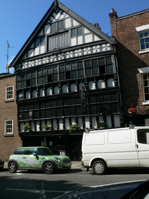 The Bear and Billet, Chester Built as a town house for the Earl of Shrewsbury in 1664 on the west side of Lower Bridge Street. It has been an inn since the 18th century